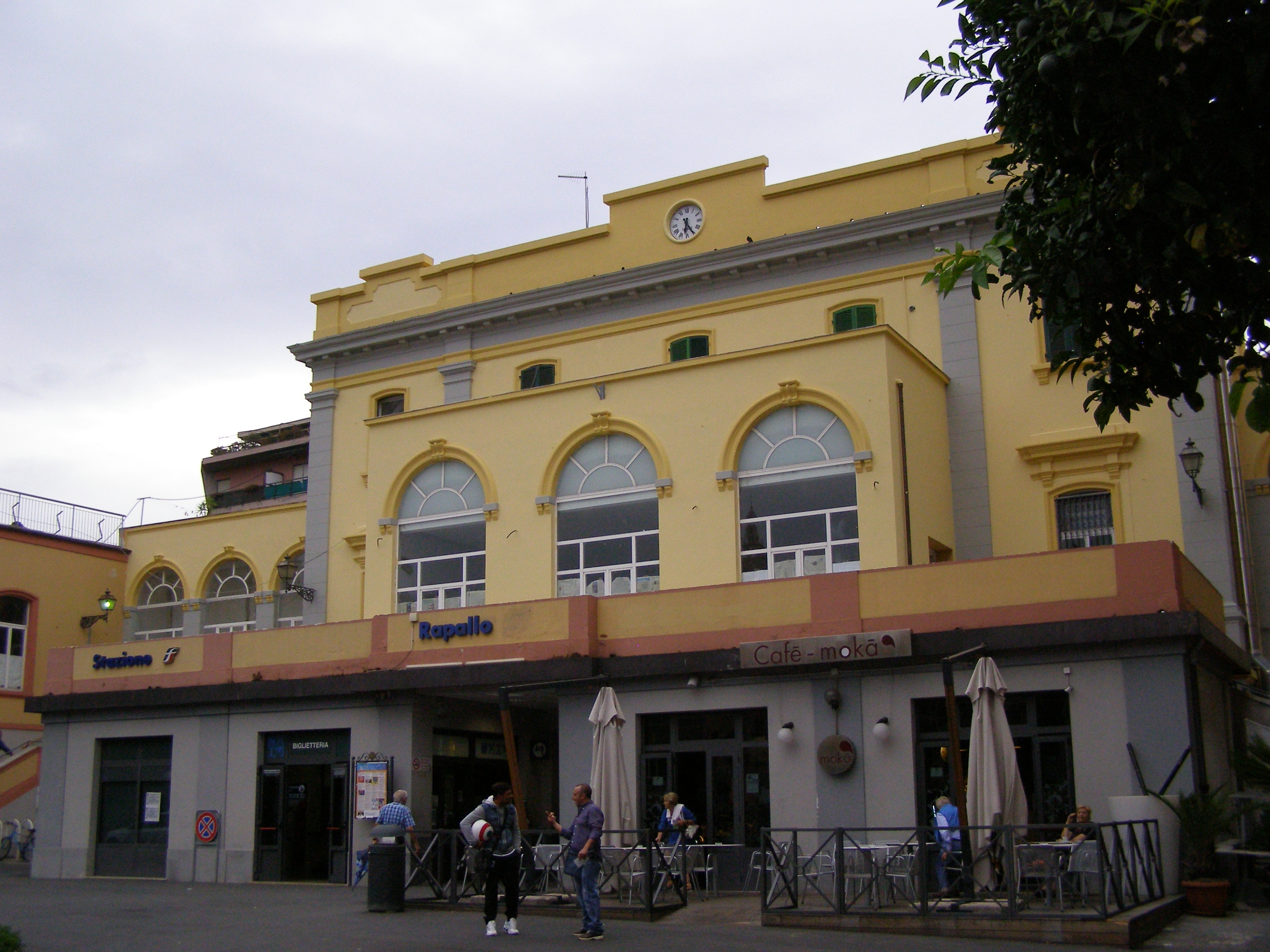 Rapallo - railway station building